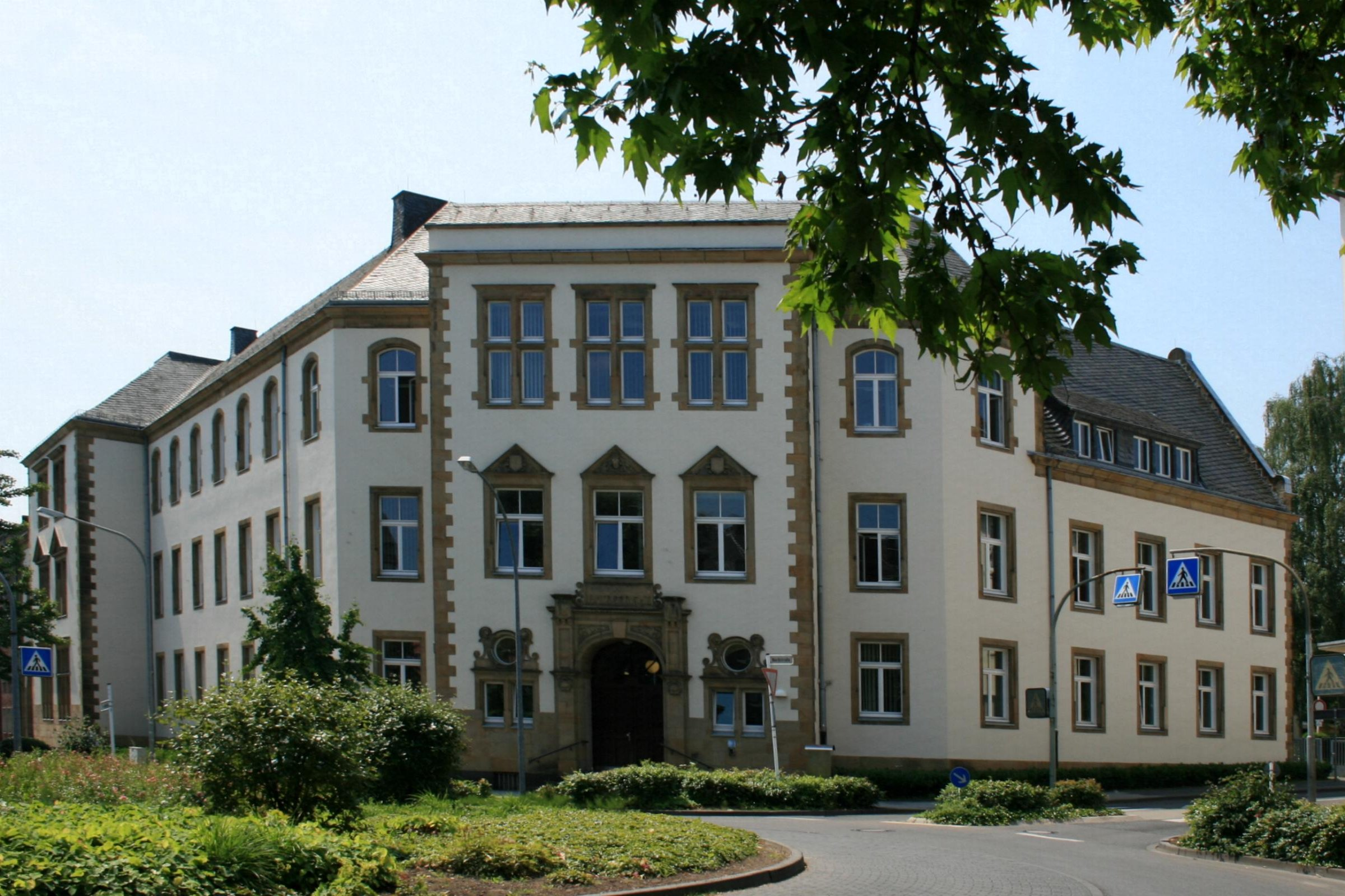 Cultural heritage monument No. B 071 in Mönchengladbach